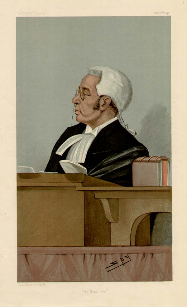 Judges No.51: Caricature of Mr Justice JC Bigham. Caption reads: "We Shall See"